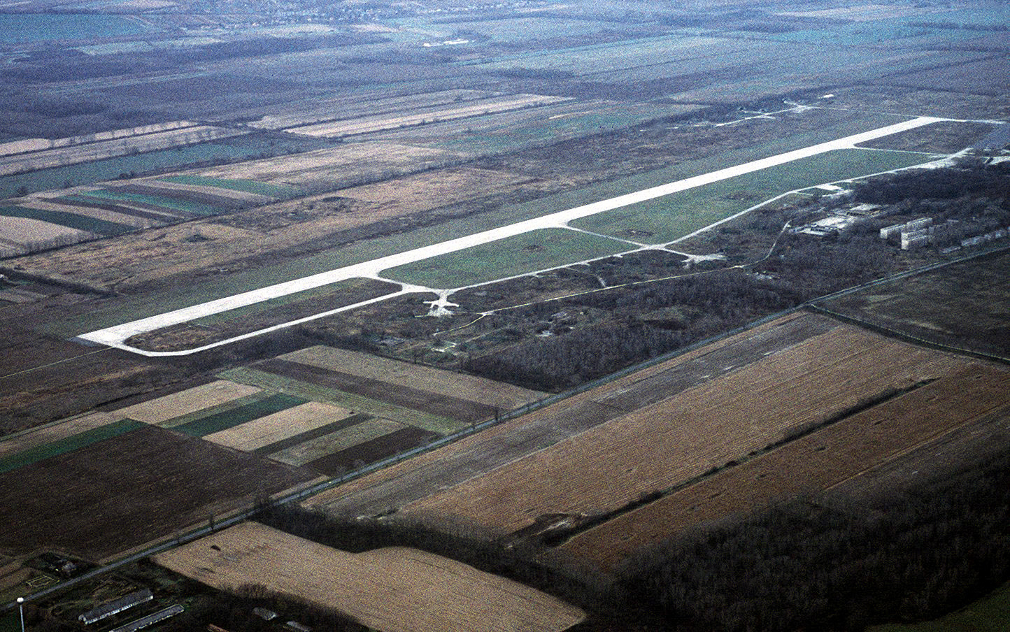 Aerial view of Sarmellek Air Field taken 19 November, 1995, in southern Hungary.